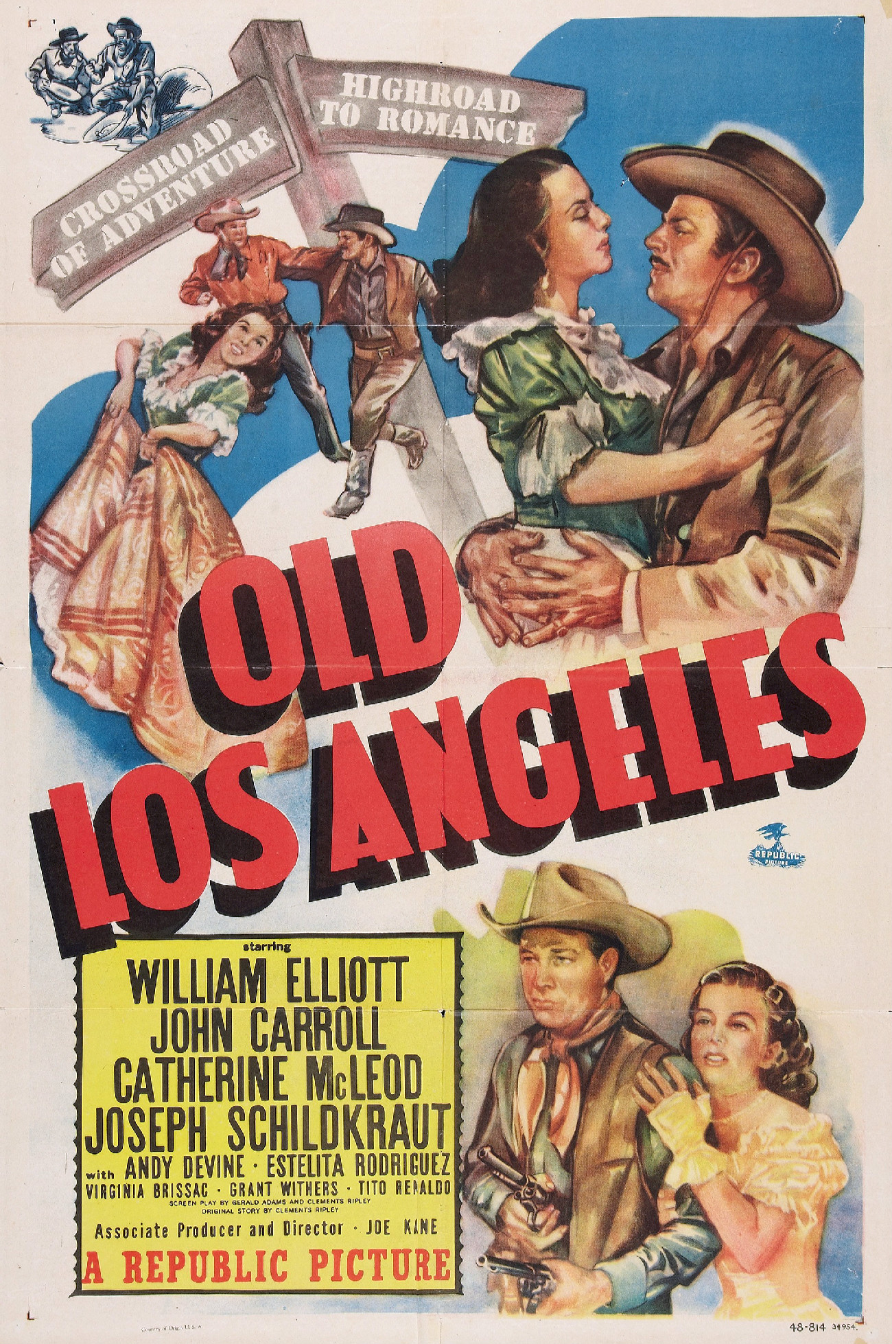 Poster for the 1948 film Old Los Angeles. There are no copyright marks. At bottom left is Country of origin USA. At bottom right is 48/814 34954.